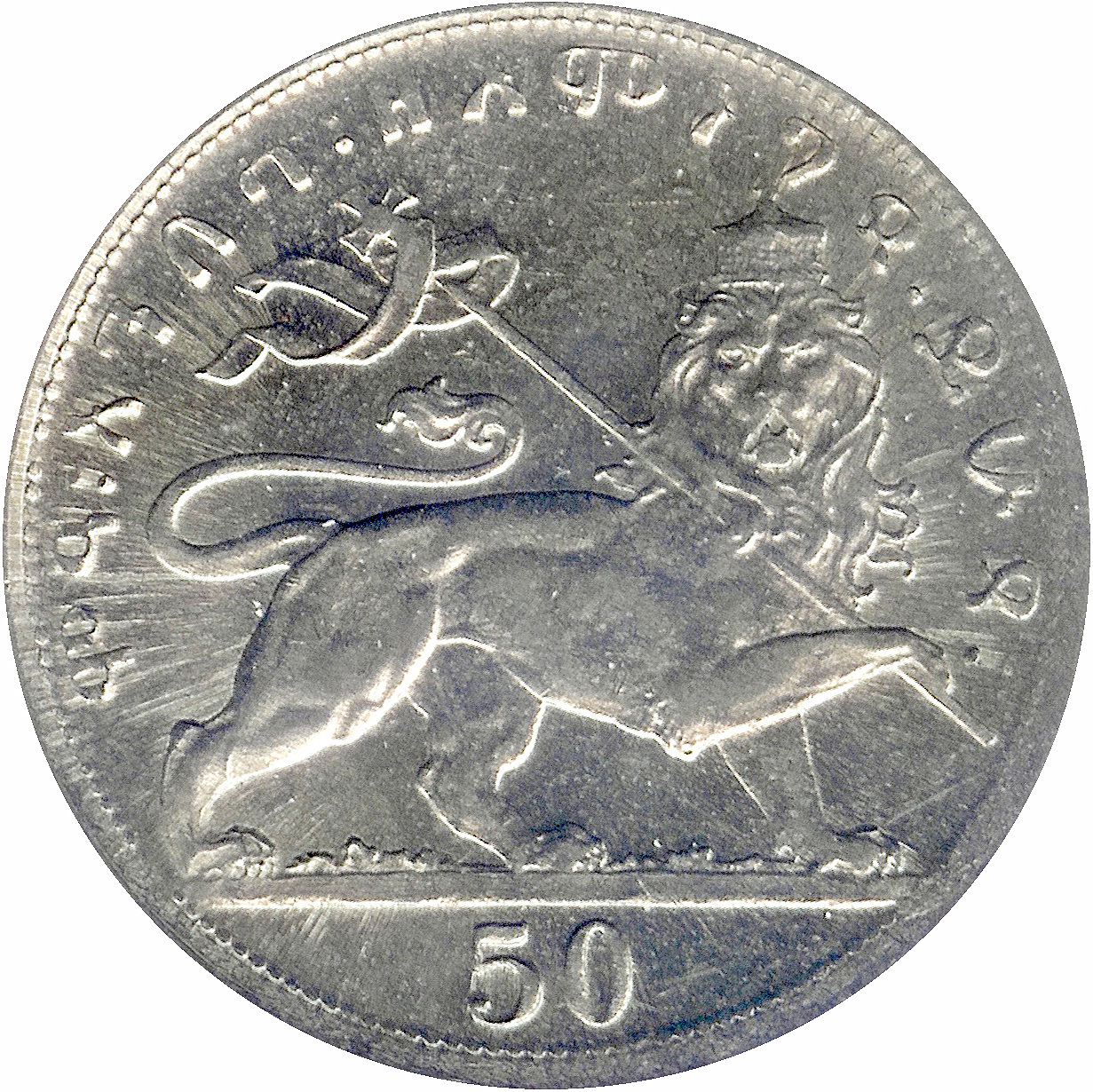 Ethiopia EE1923 (1931) 50 matonas in AU-55, Reverse. KM#31 Scan of a coin personally owned by Physics-fan3.14 For the 1931 coin